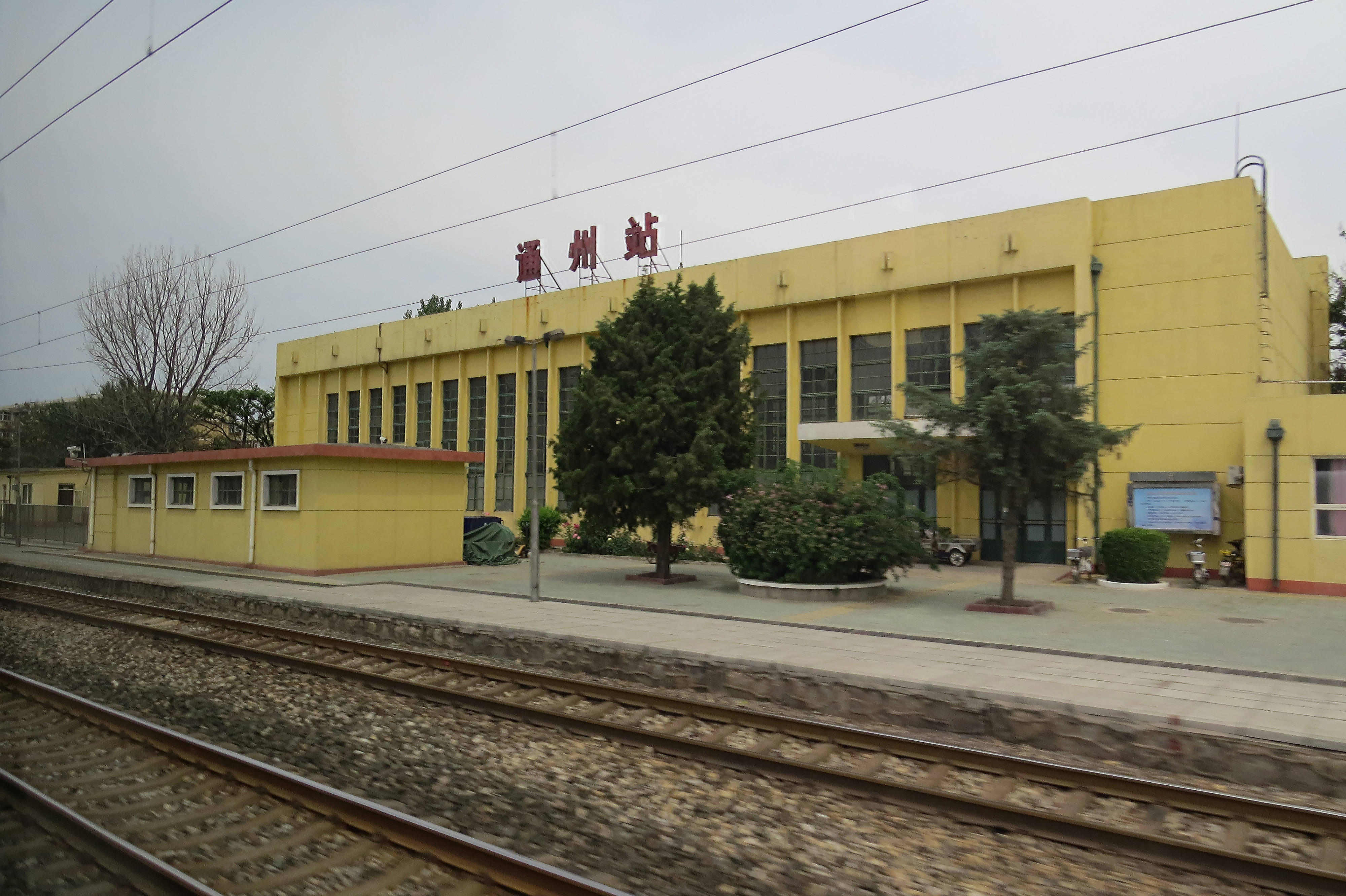 Taken from D6612.